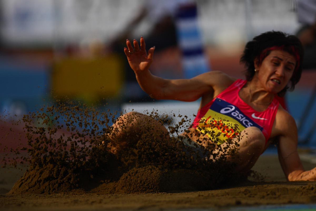 Tatyana Lebedeva. SEPTEMBER 23, 2009 - Track & Field : Women's Long Jump during the Super Track and Field Meet at Todoroki Stadium on September 23, 2009 in Kanagawa, Japan. (Photo by Tsutomu Takasu)